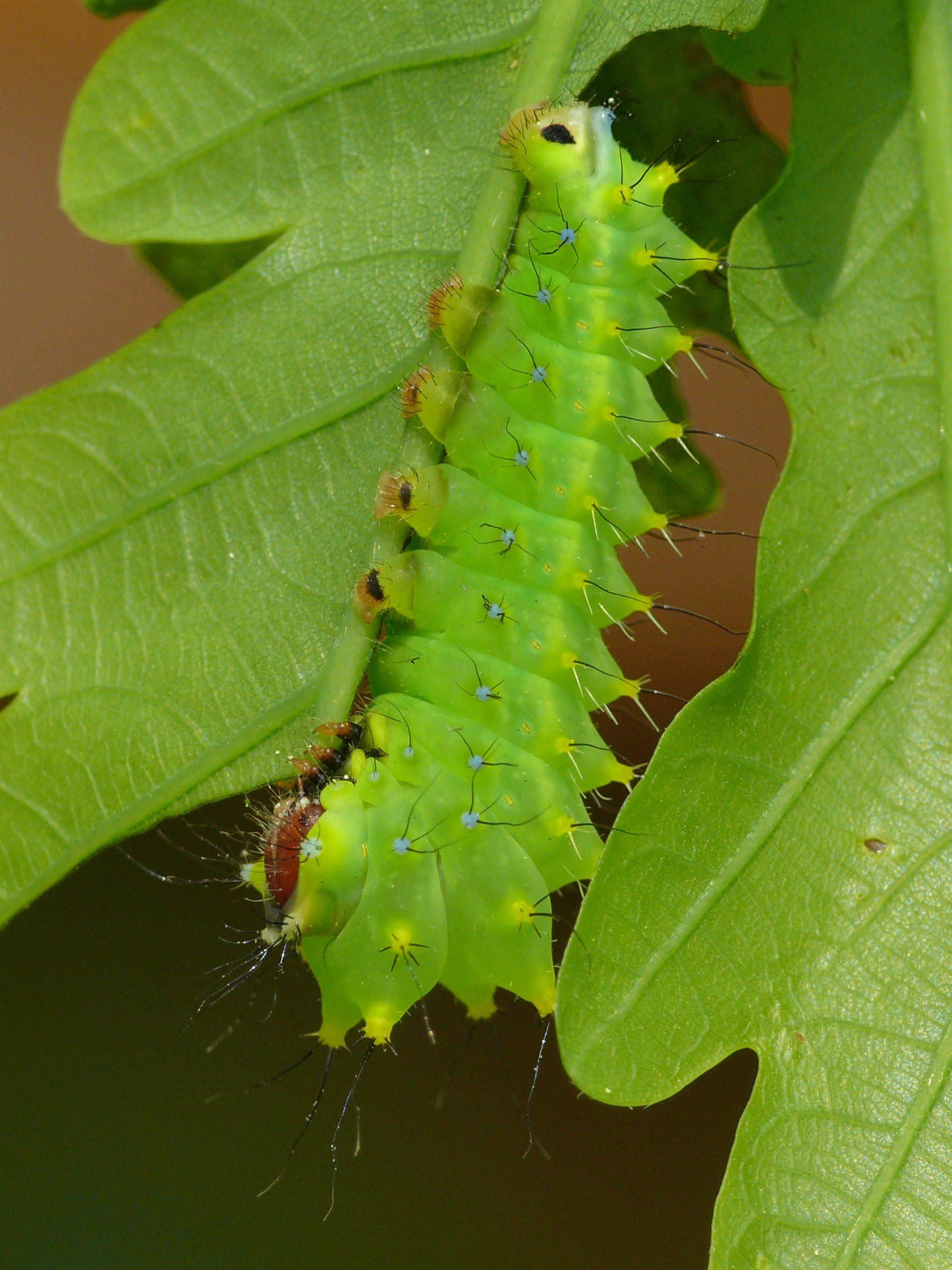 Caterpillar of Japanese Silk Moth or Japanese Oak Silkmoth (Antheraea yamamai) in third instar (L3).